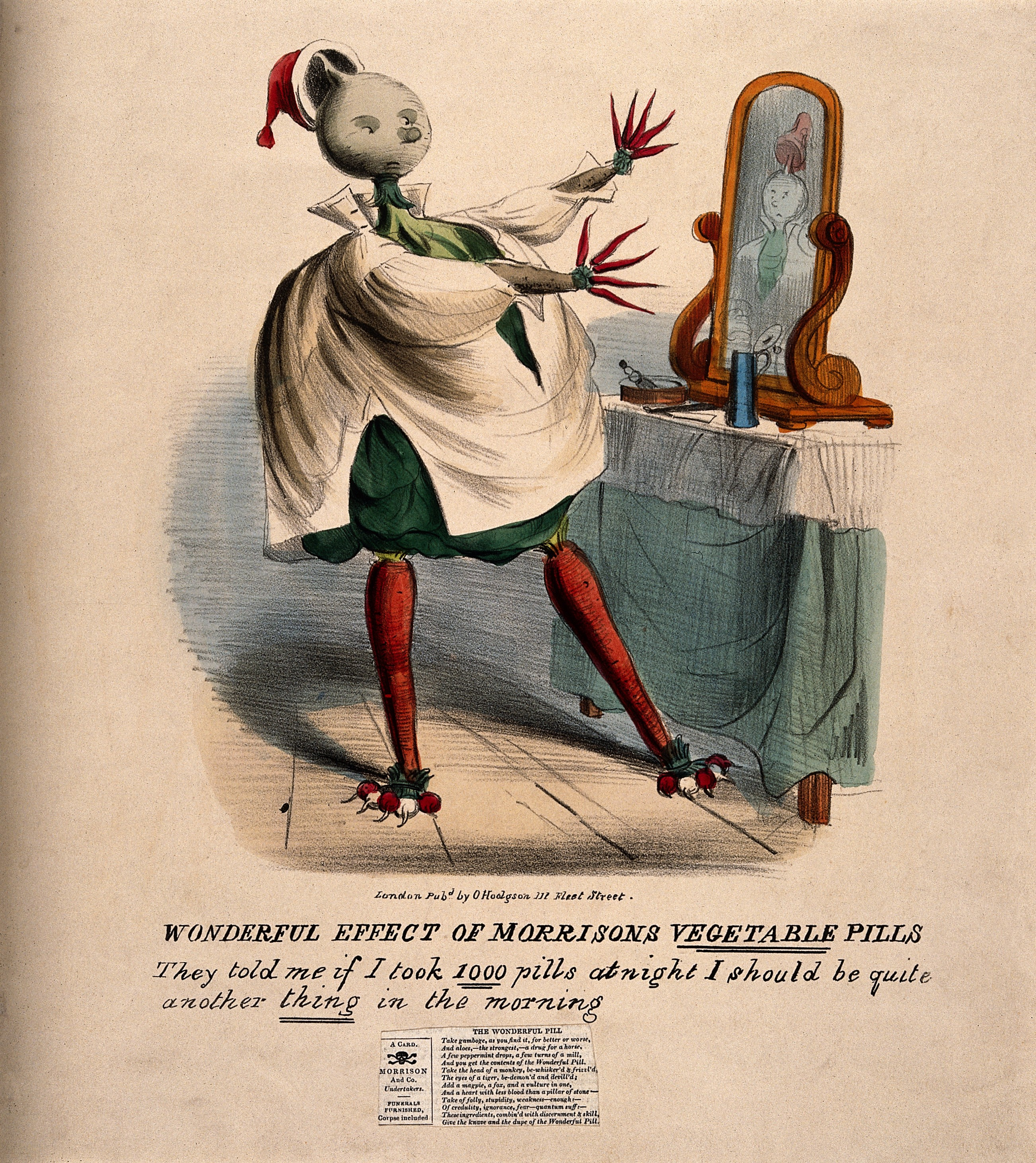 Topic-LCSH: Vegetables. Tablets (Medicine) Alternative medicine. House furnishings -- Great Britain -- 19th century. Mirrors. Genre/Technique: Caricatures. Lithographs.